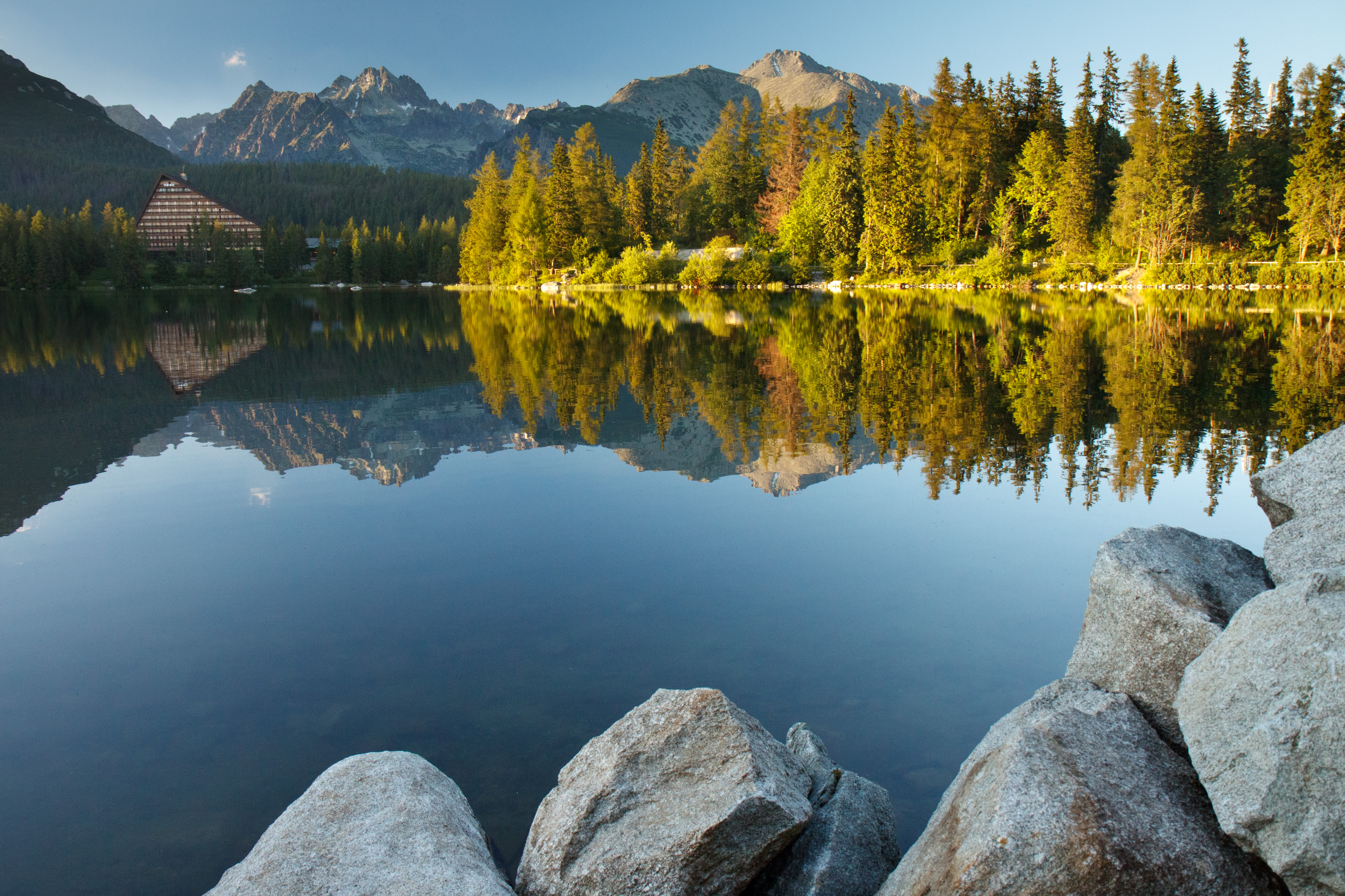 Strbske Pleso in High Tatras in SlovakiaSlovenčina: Strbske pleso vo Vysokych Tatrach na Slovensku